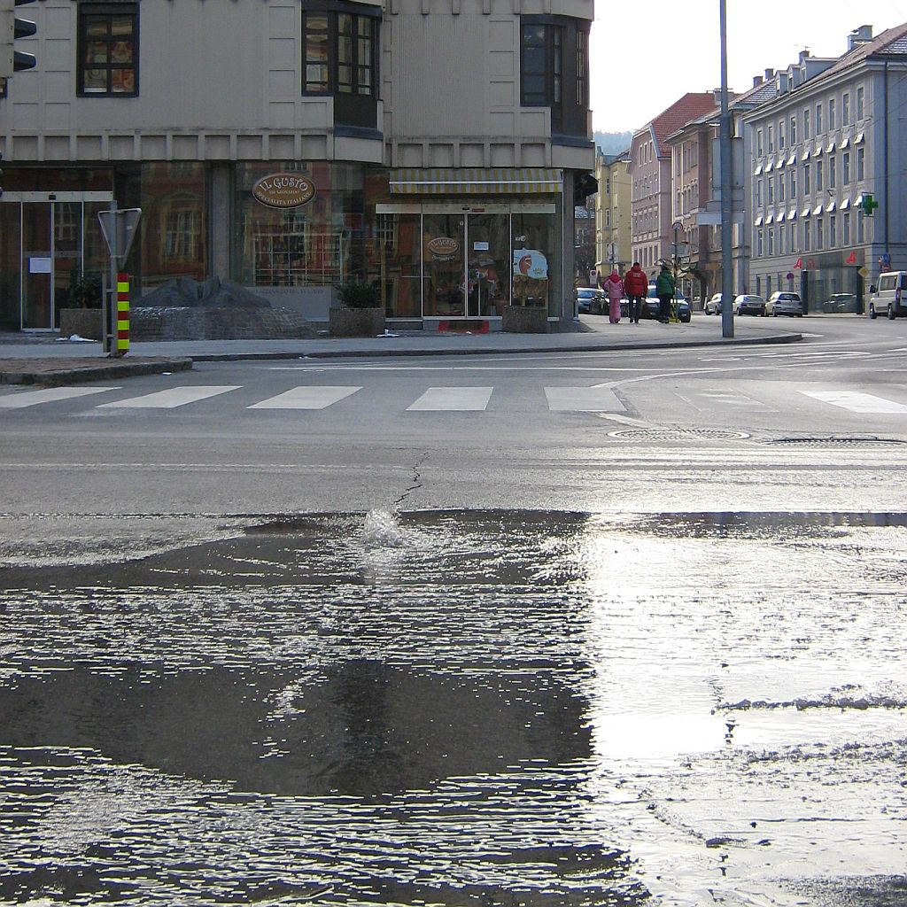 pipe burst in Innsbruck city